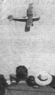 Gerner G-II RC D-EBER at Lympne 1934